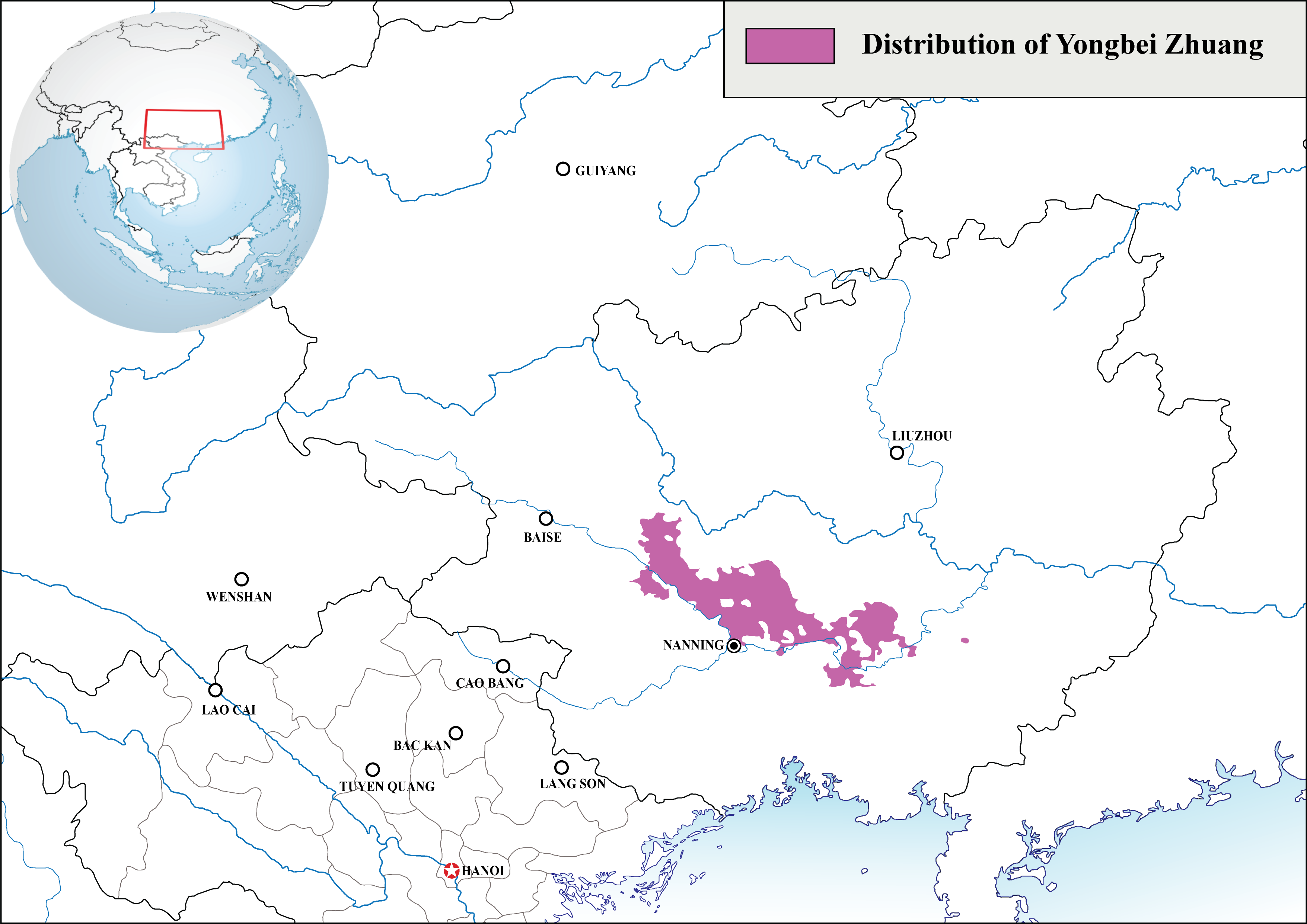 Geographic distribution of Yongbei Zhuang dialect Source: Major Zhuang Language Groups and Related Peoples (Joshuaproject) [1]. Its vector version can be found here: Yongbei.svg